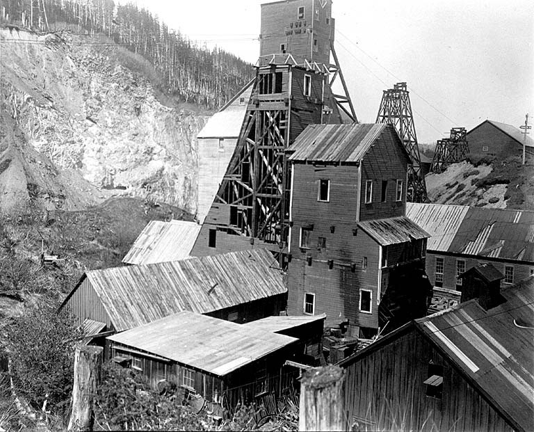 From John Cobb field notebook: Hoist at the Glory Hole, treadwell. May 24, 1911 Subjects (LCTGM): Gold mining--Alaska--Treadwell Subjects (LCSH): Alaska Treadwell Gold Mining Company; Headframes (Mining)--Alaska--Treadwell; Hoisting machinery--Alaska--Treadwell; Gold mines and mining--Alaska--Treadwell